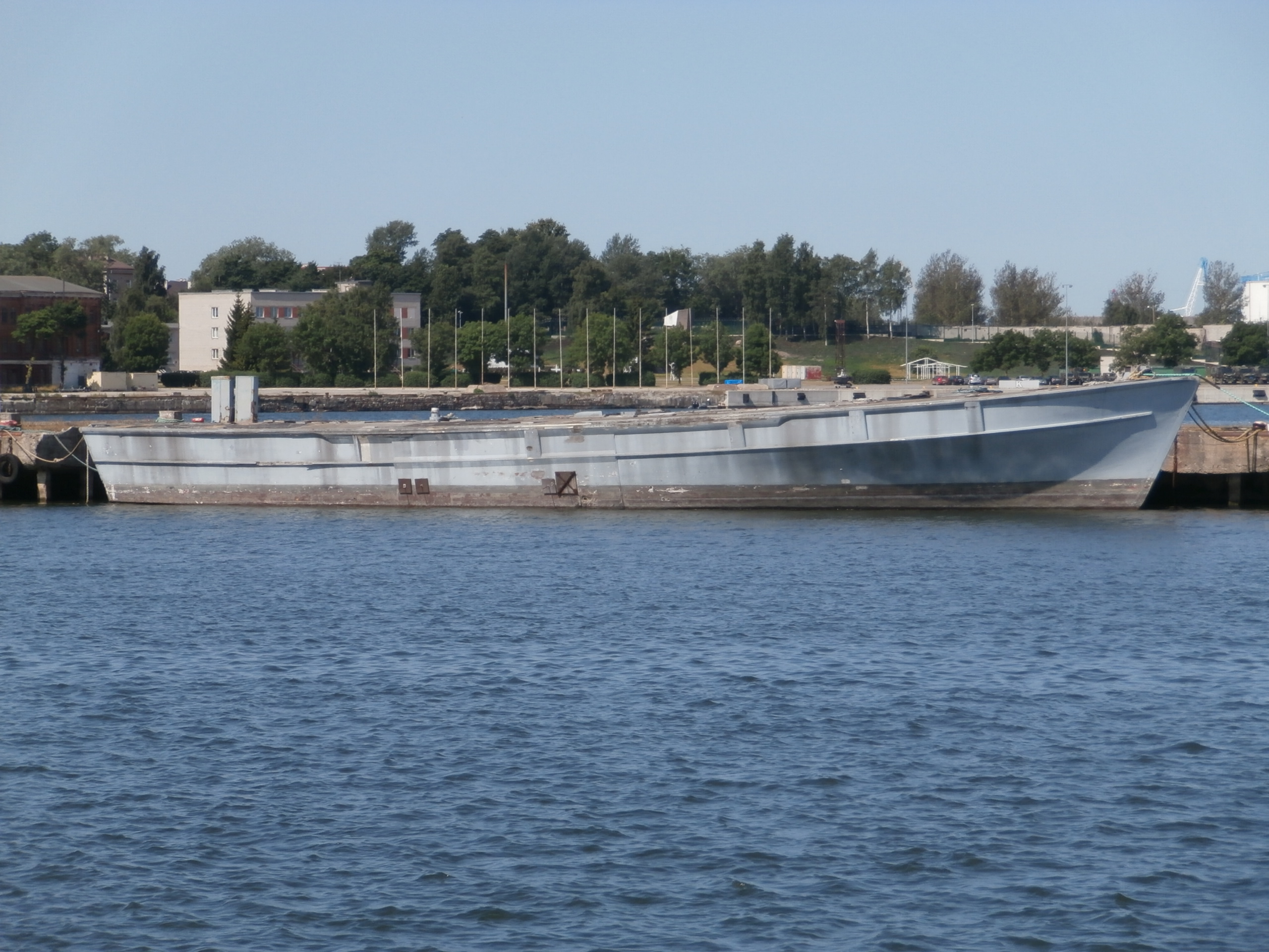 M2665 Loreley Hull at Quay in Peetri sadam in Tallinn 12 July 2013